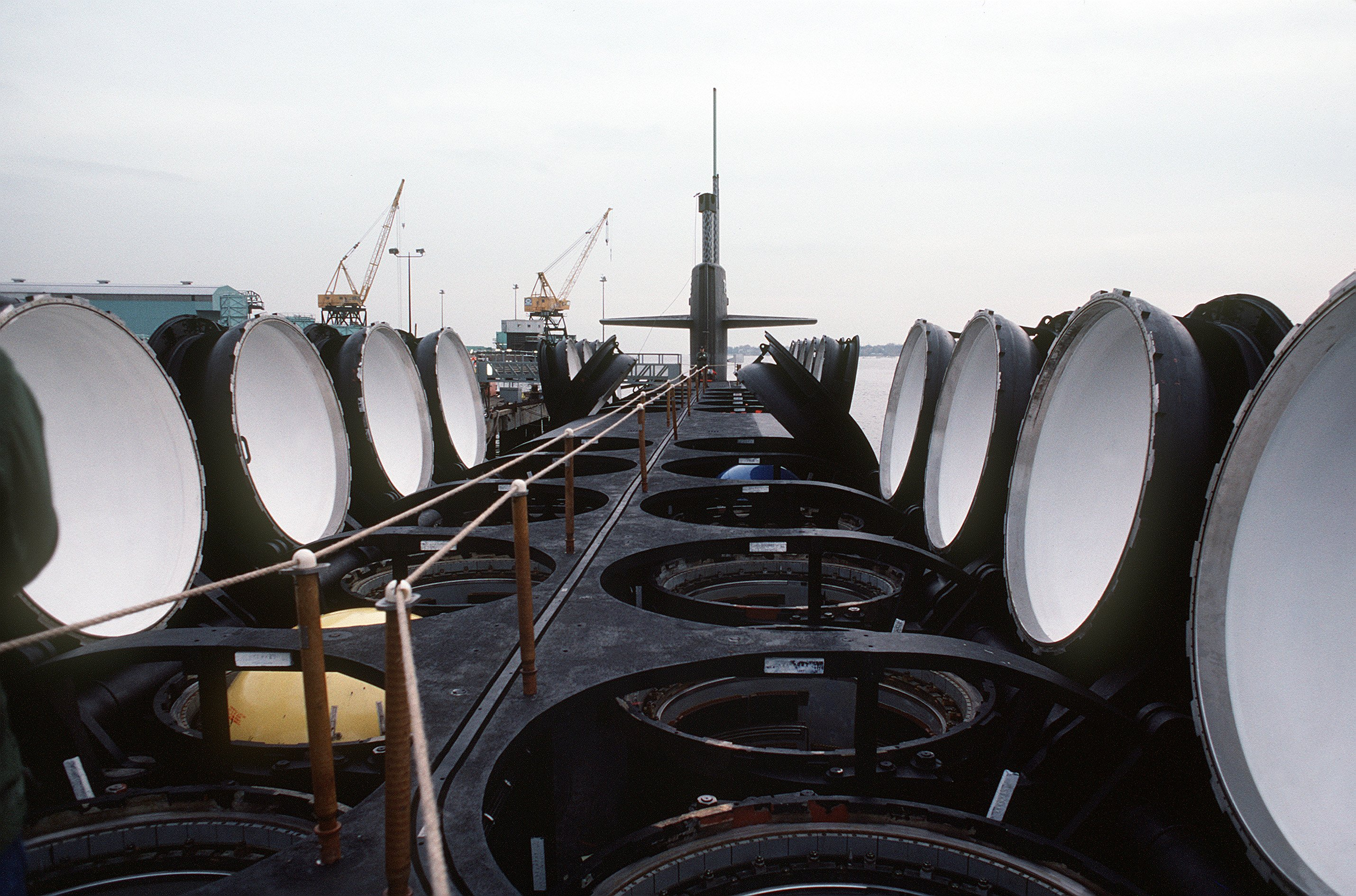 ID: DN-ST-82-01336 Service Depicted: Navy A deck view, looking toward the bow, of the nuclear-powered ballistic missile submarine OHIO (SSBN-726) with its missile tubes opened during precommissioning activities. The submarine, built by General Dynamics Corp., carries Trident C-4 (UGM-96) submarin Location: NAVAL SUBMARINE BASE, GROTON, CONNECTICUT (CT) UNITED STATES OF AMERICA (USA)